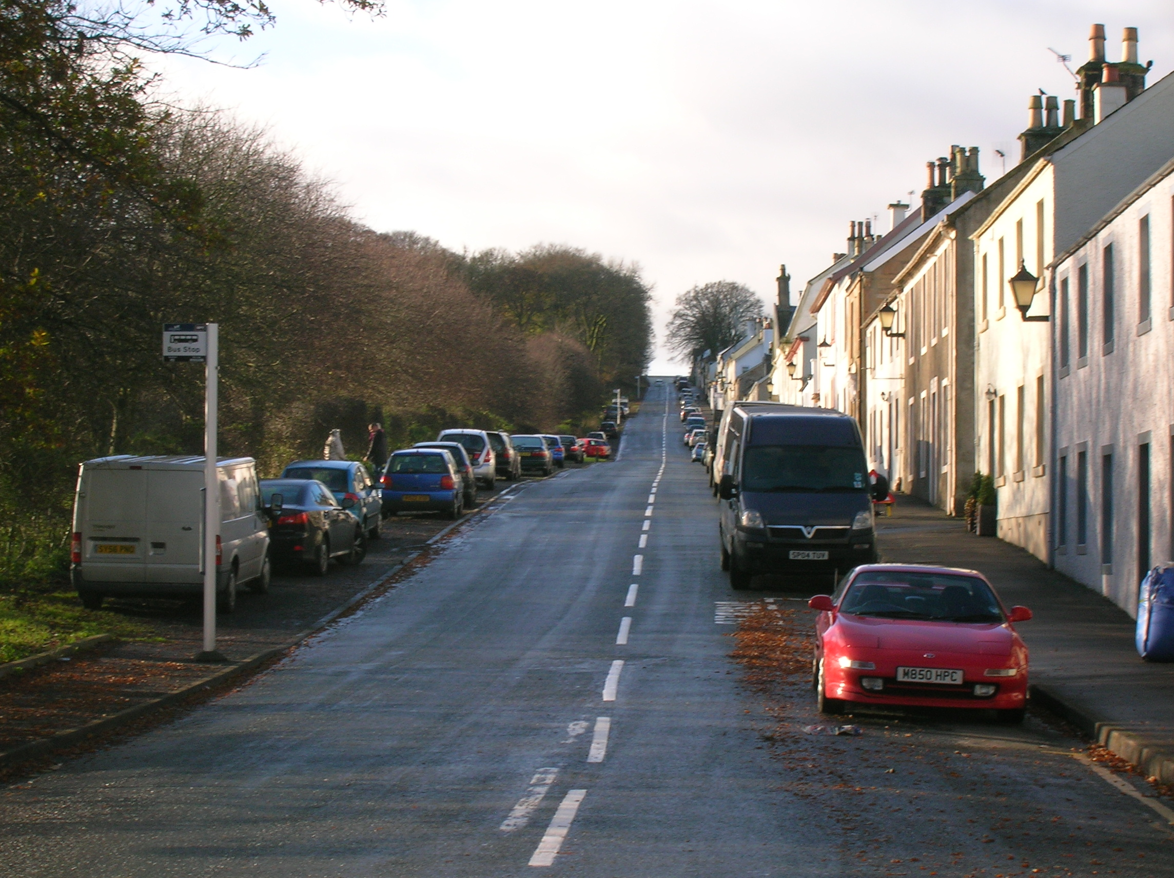 Polnoon Street, Eaglesham, East Renfrewshire, Scotland